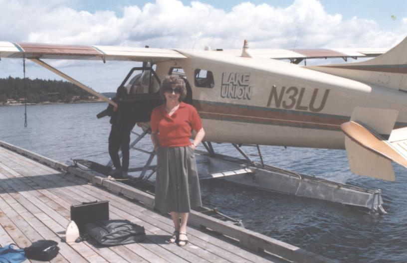 DHC-2 Beaver Floatplane of Lake Union Airways on scheduled service at Friday Harbor, WA